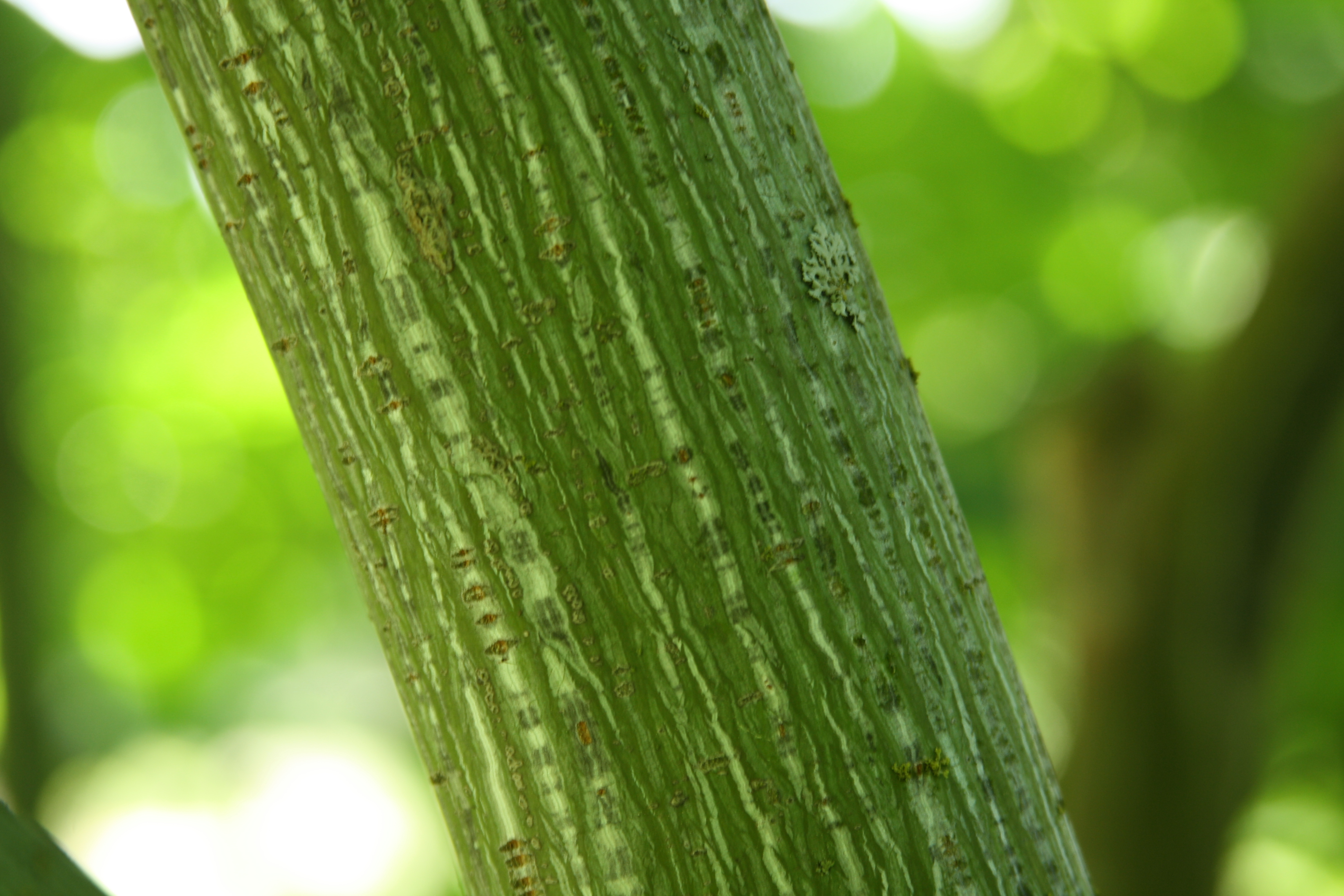 The bark of Acer_tegmentosum, Botanical garden of Tallinn, Estonia